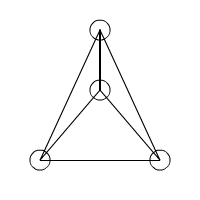 A complete graph with 4 vertices without any crossings. Author: Robin Weezepoel